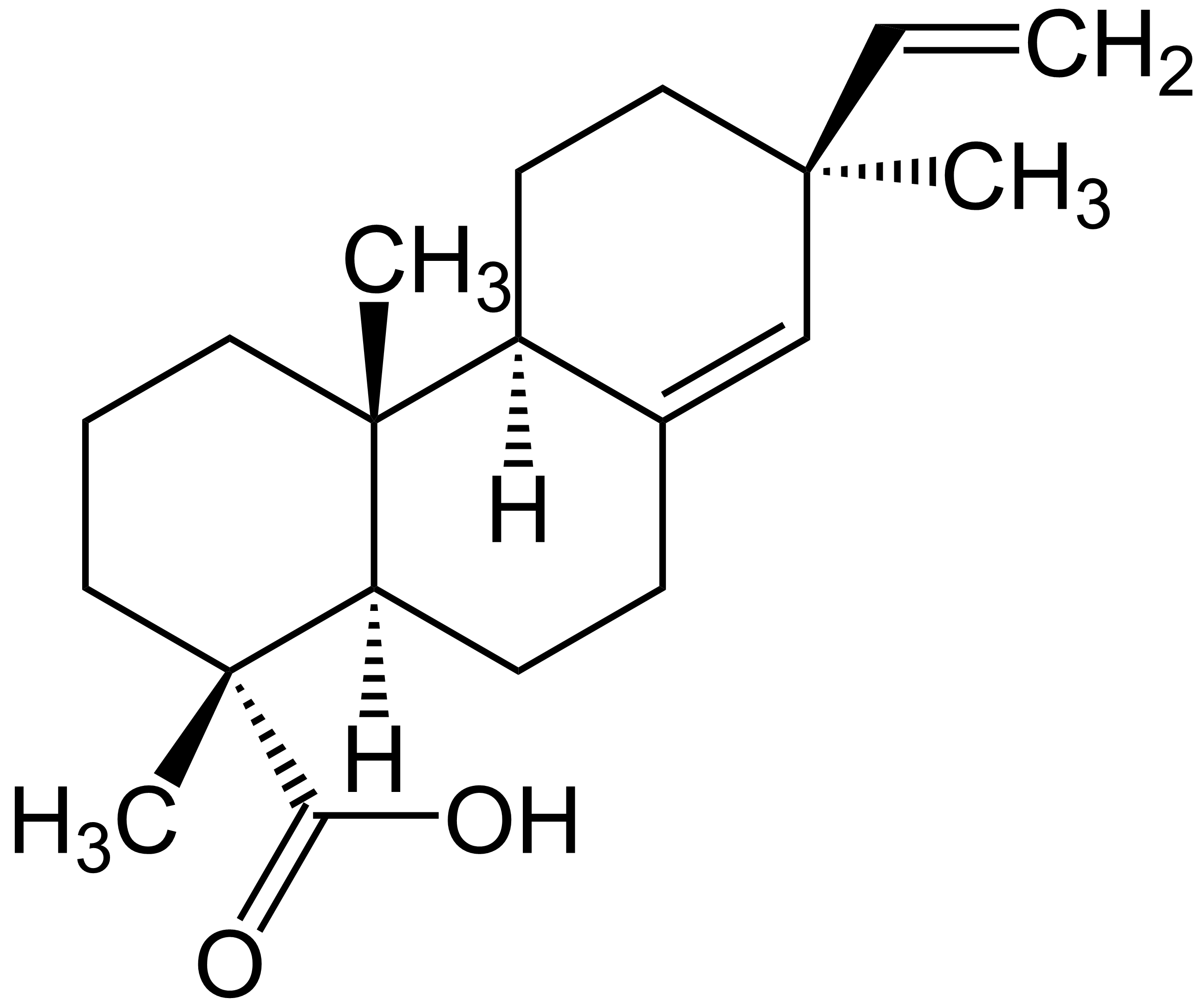 Chemical structure of pimaric acid